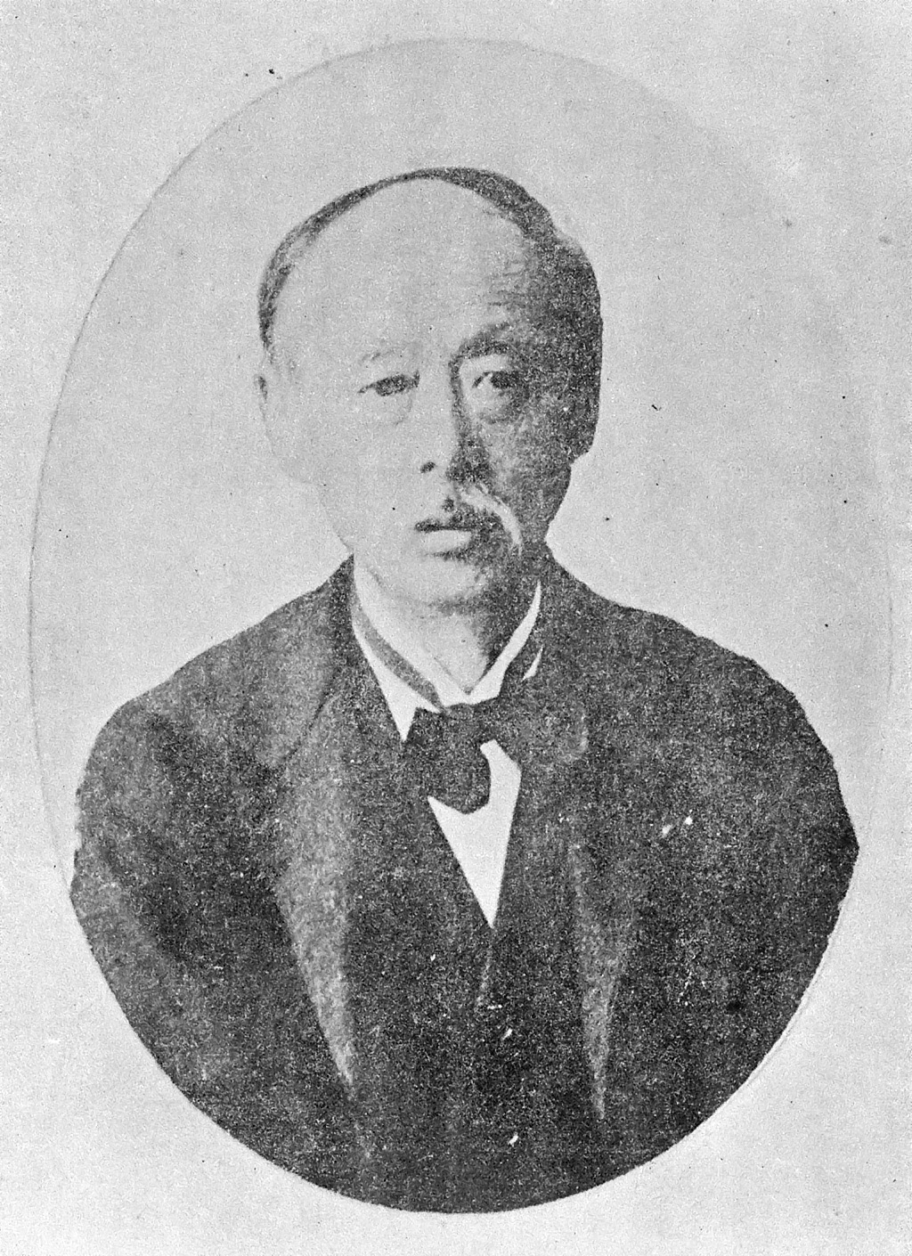 Portrait of Hattori Seiichi (服部誠一, 1841 – 1908)